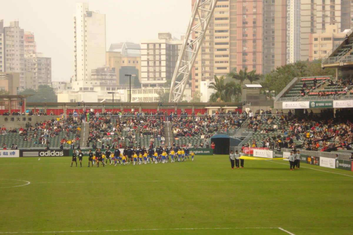 HK Lunar New Year Cup 2008